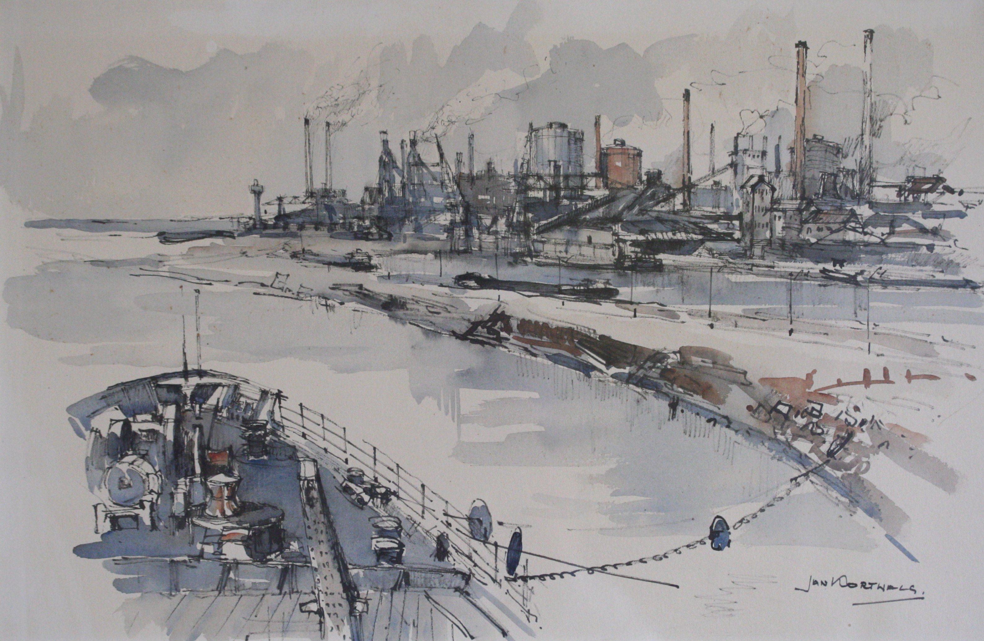 Impression of Hoogovens IJmuiden by Jan Korthals Photo by Sander van der Molen